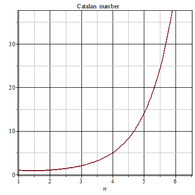 continuous interpolation between Catalan numbers using the Gamma function